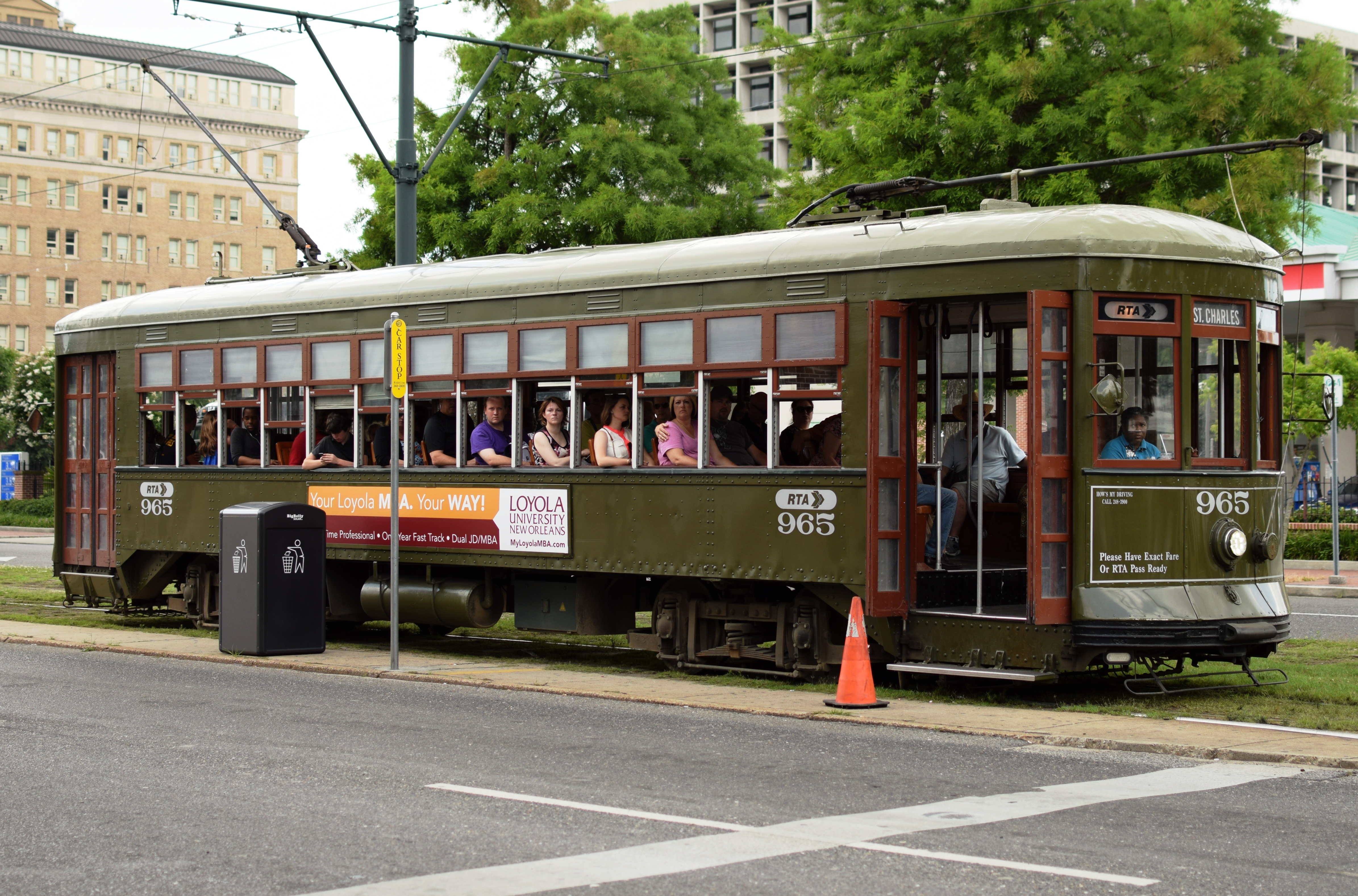 A New Orleans streetcar stop